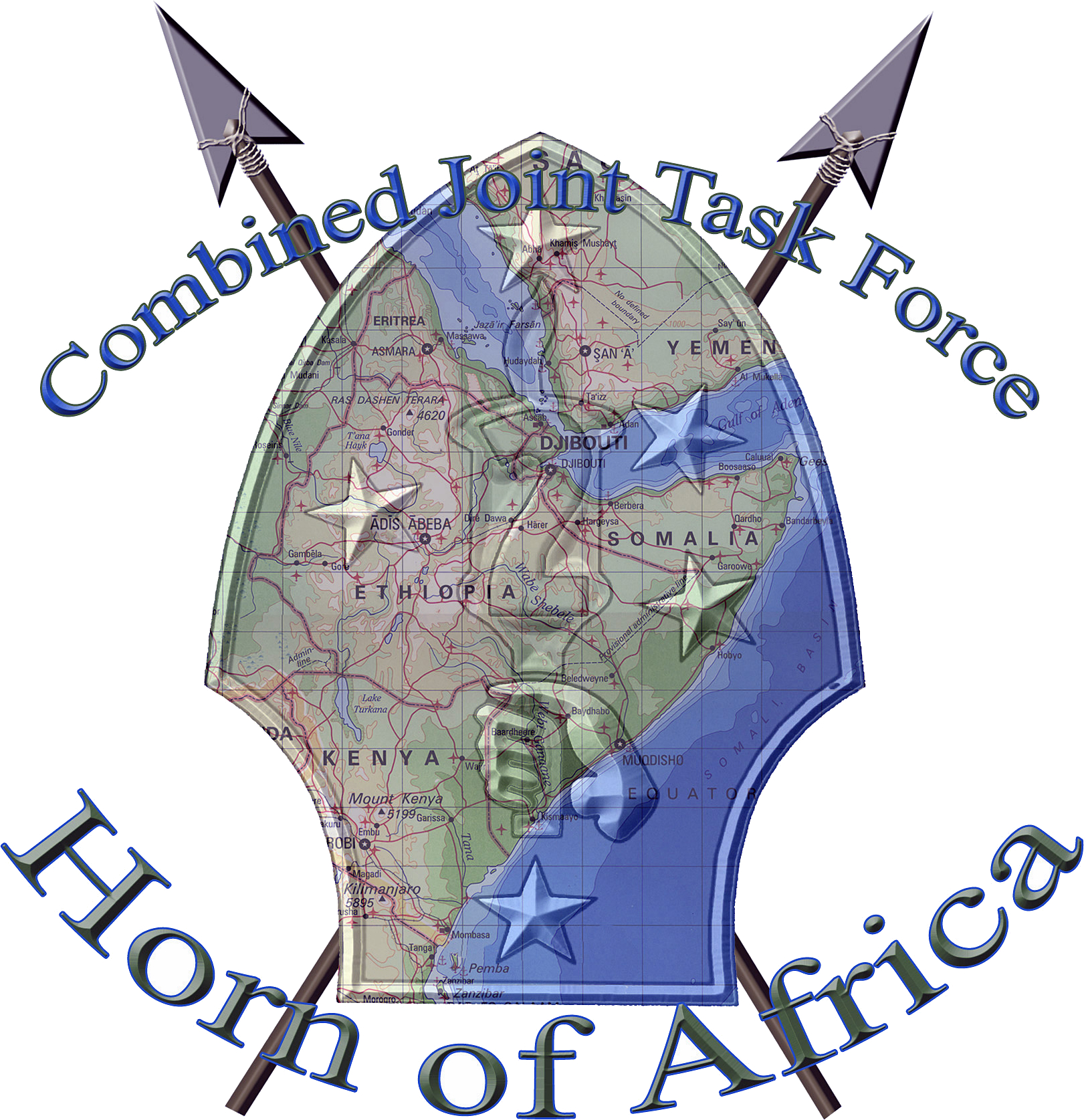 From the Depart of Defense image search website - Defense Visual Information Center. Picture comes up if you search for Combined Joint Task Force-Horn of Africa ID: DM-SD-05-12557 Service Depicted: Marines Official logo Combined Joint Task Force-Horn of Africa (CJTF-HOA). Location: CAMP LEJEUNE, NORTH CAROLINA (NC) UNITED STATES OF AMERICA (USA) Date Shot: 1 Jan 2005